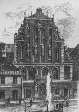 House of the Black Heads at Riga, Latvia, 1891